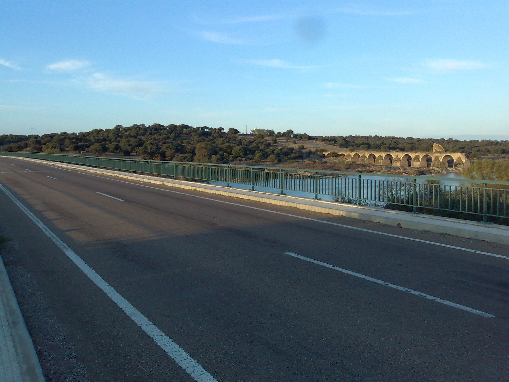 Ajuda bridge, Elvas